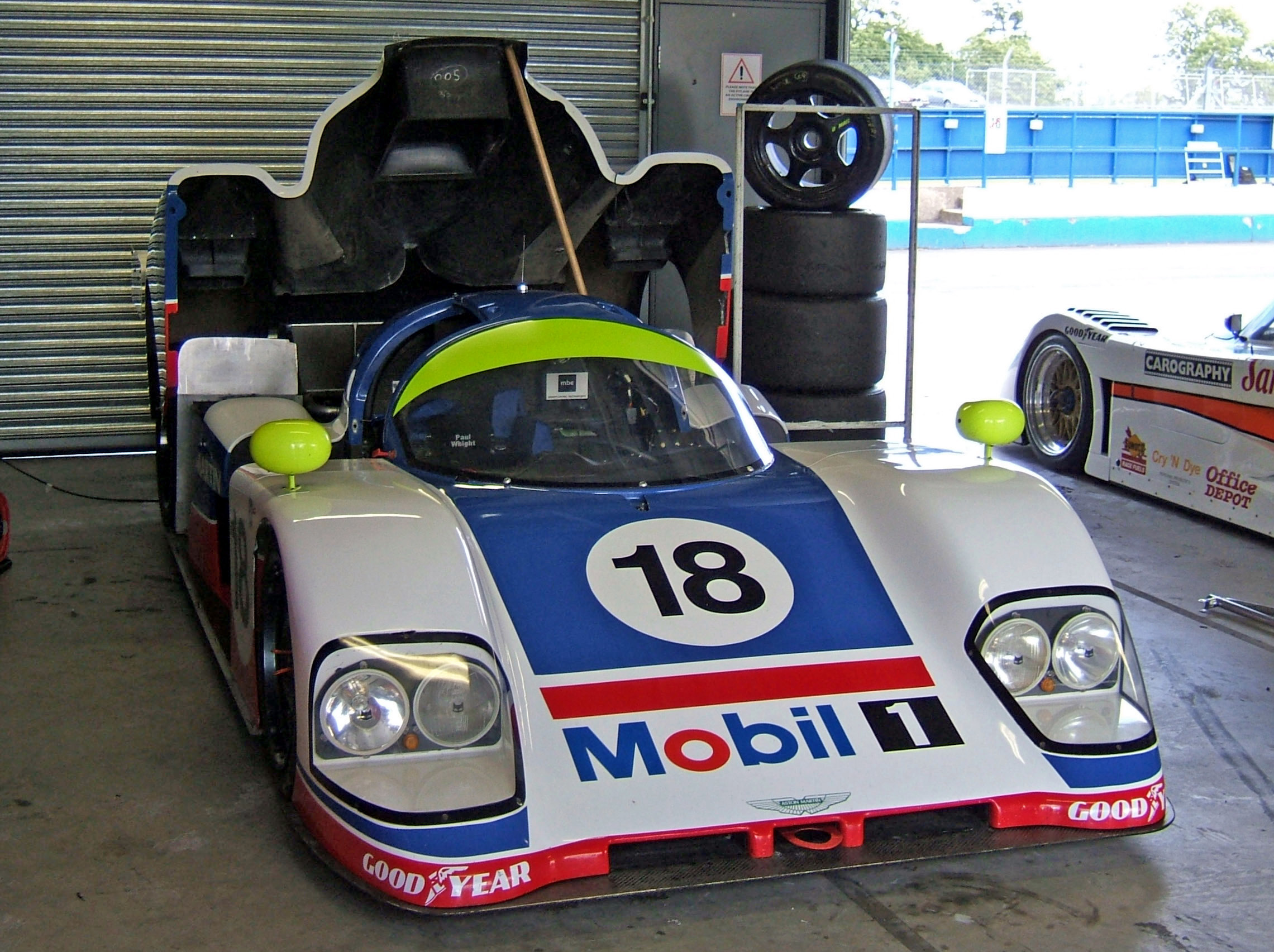 The Aston Martin AMR1 Group C car, waiting in the pit garages during the VSCC SeeRed race meeting, Donington Park, September 2007.